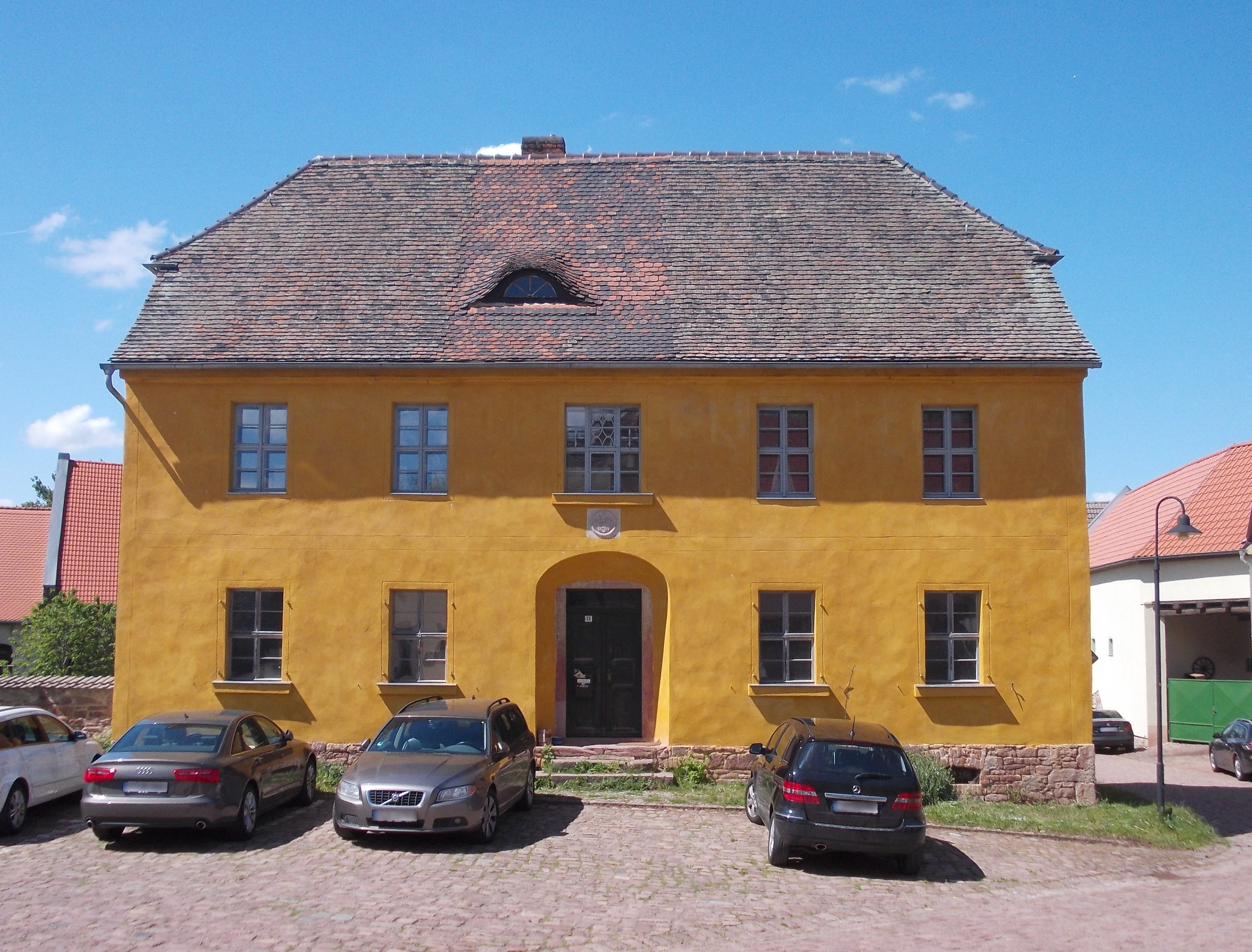 Dobis manor house (Wettin-Löbejün, district: Saalekreis, Saxony-Anhalt)